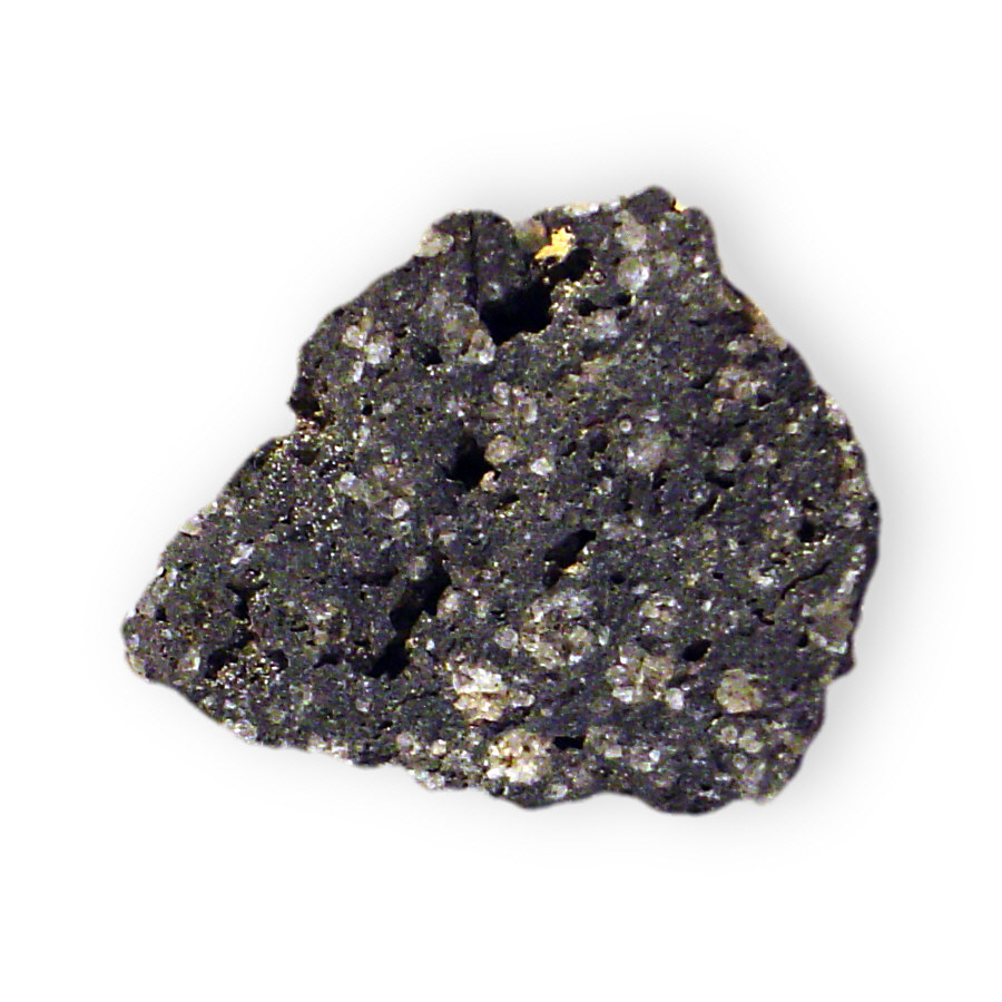 These mineral images are free to use how you wish.